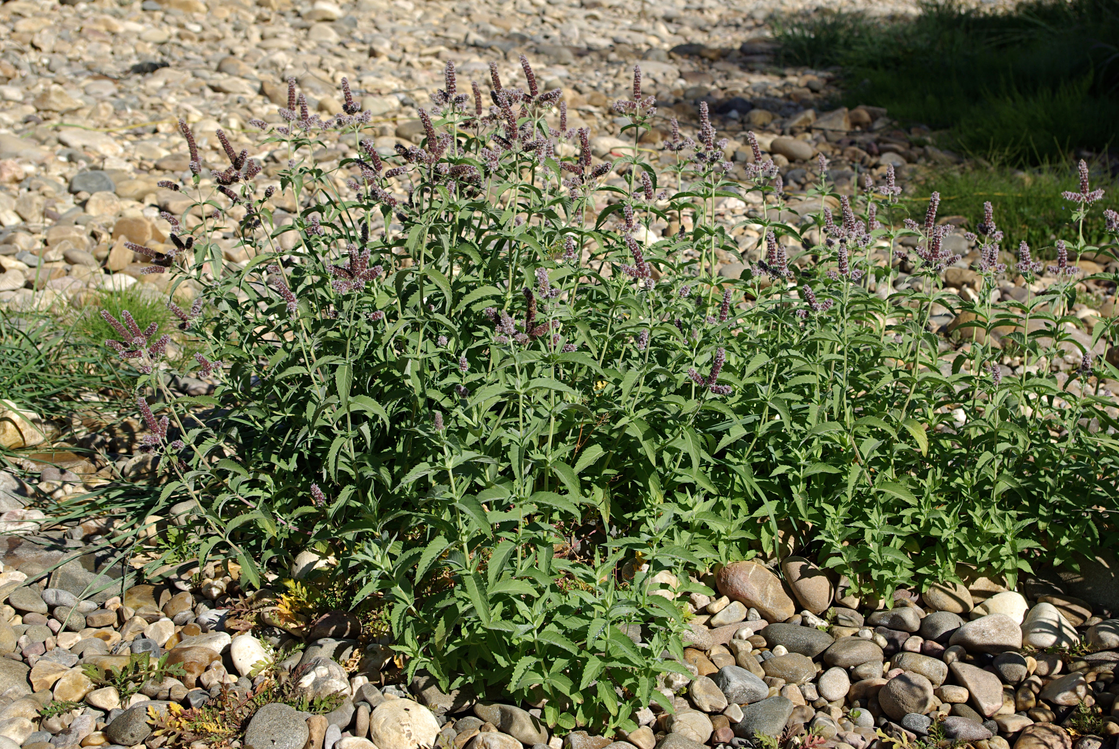 Horse mint (Mentha longifolia). León (Spain).